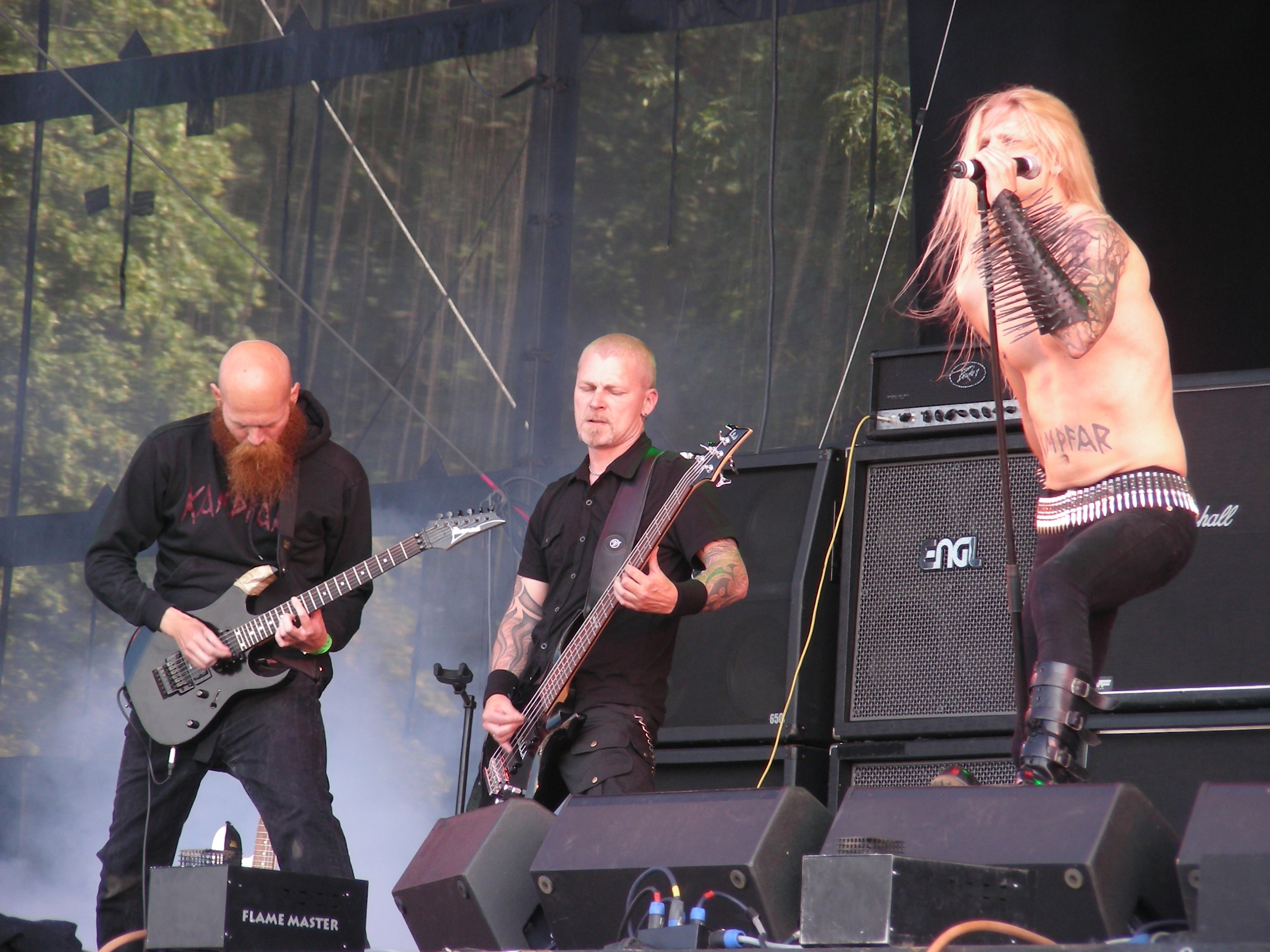 The norwegian black/pagan Metal band Kampfar at Wacken Open Air 2010